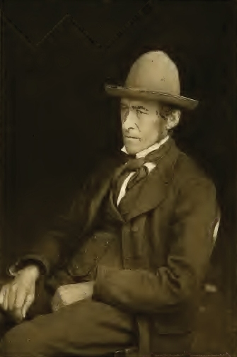 Photograph of François Devouassoud by William de Wiveleslie Abney (1843-1920)